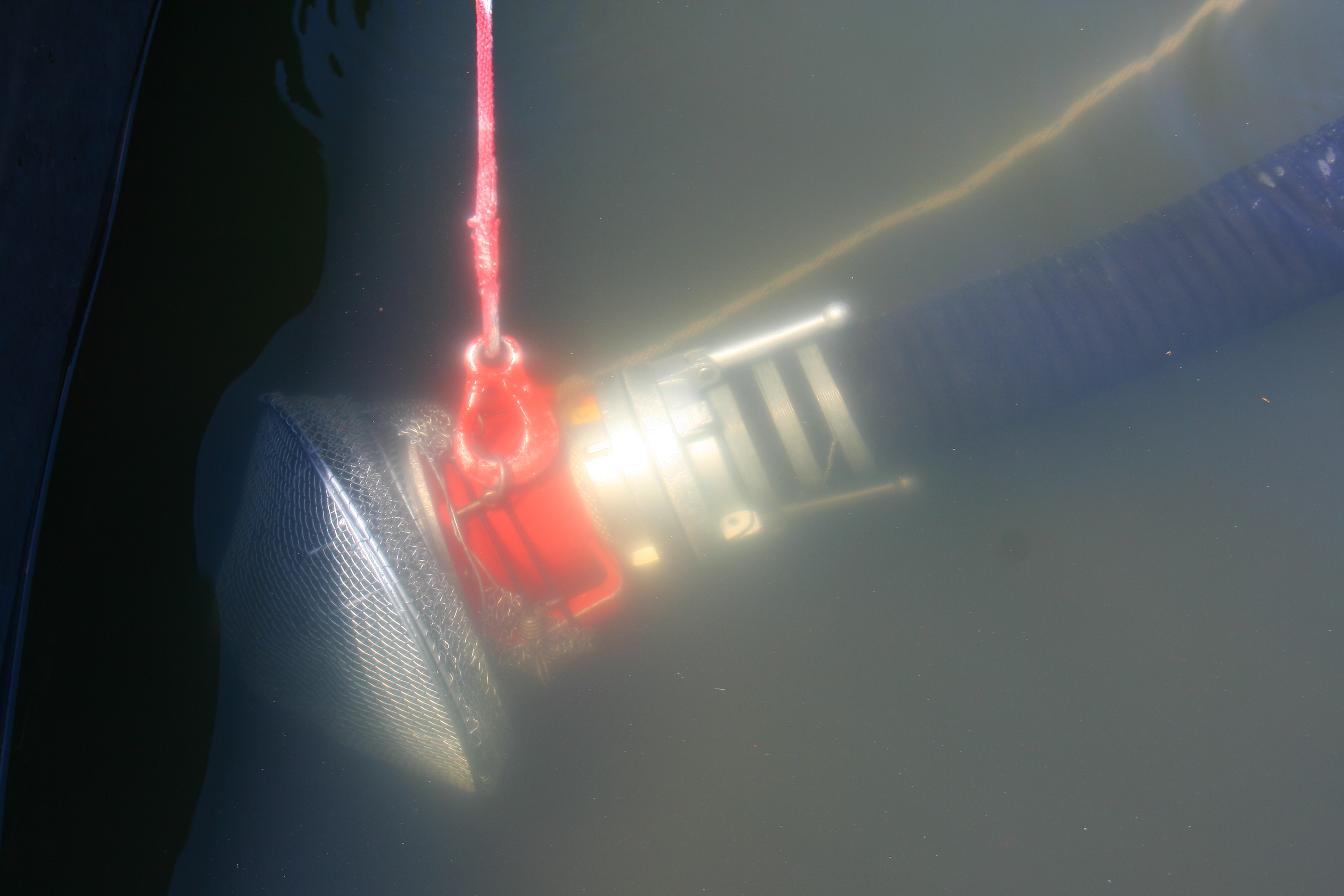 Suction hose with dirt box (to prevent congestion) in water (mobile artificial static water supply)